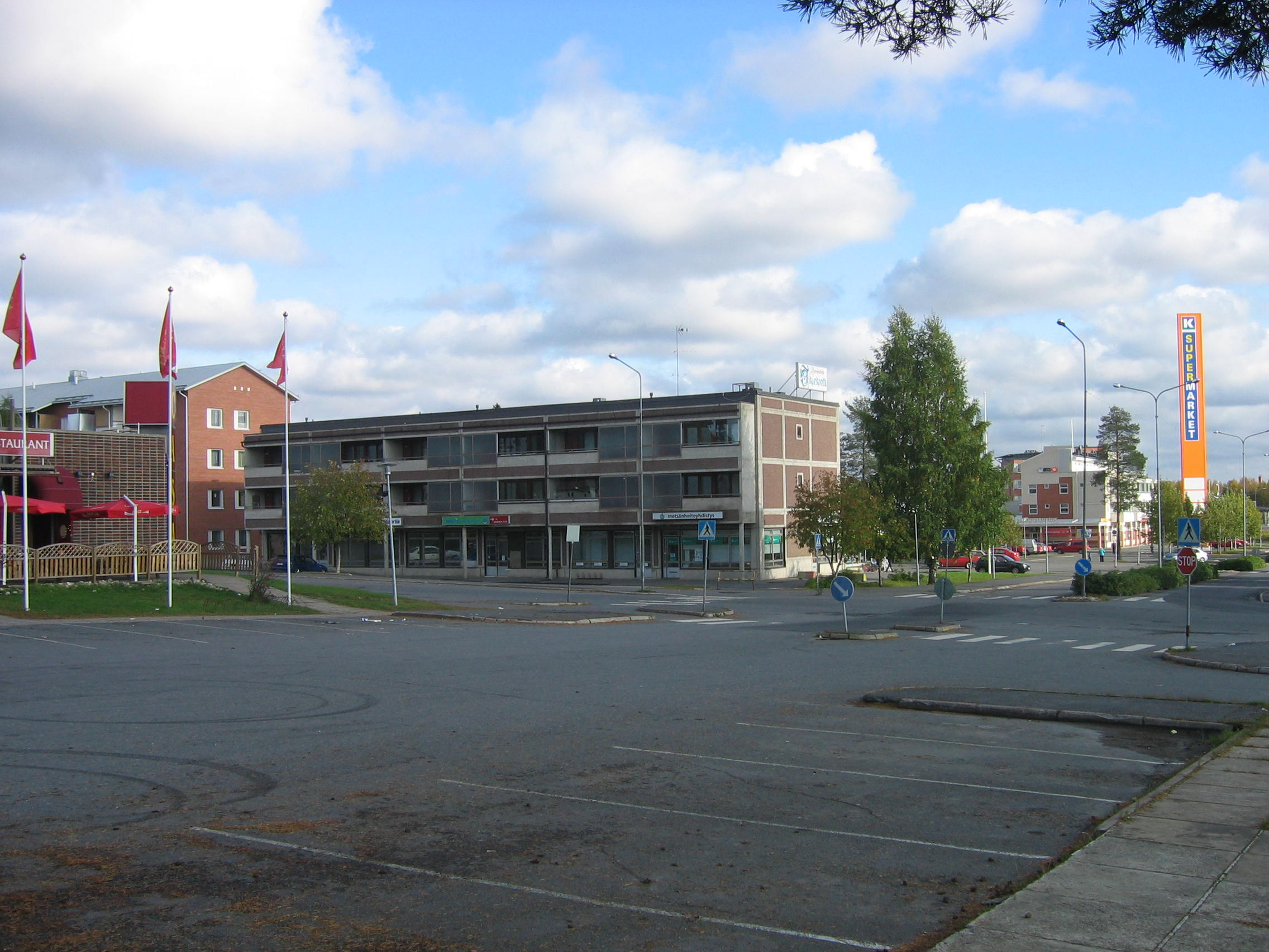 Centre of the municipality of Kiiminki, Finland.